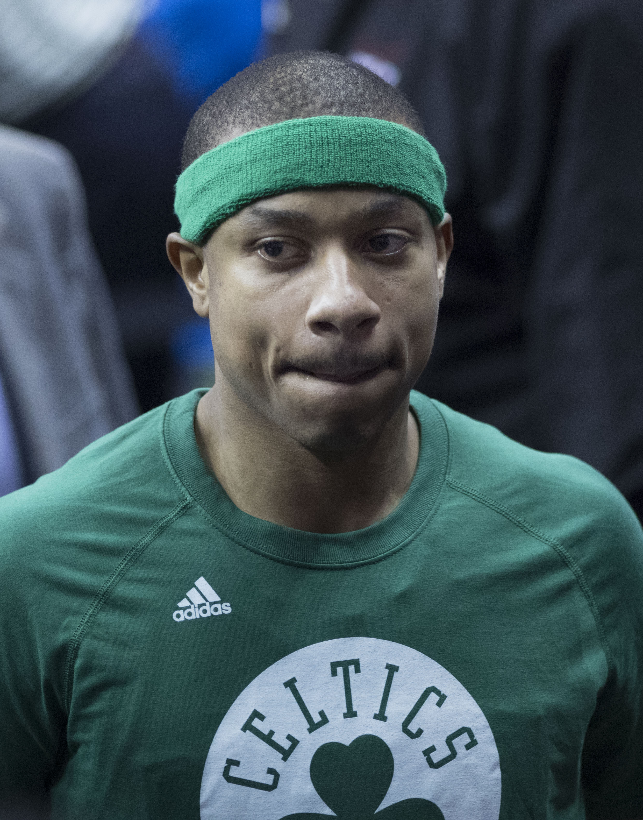 Isaiah Thomas of the Boston Celtics after a game against the Washington Wizards in Game Three of the Eastern Conference Semifinals at Verizon Center on May 4, 2017 in Washington, DC.